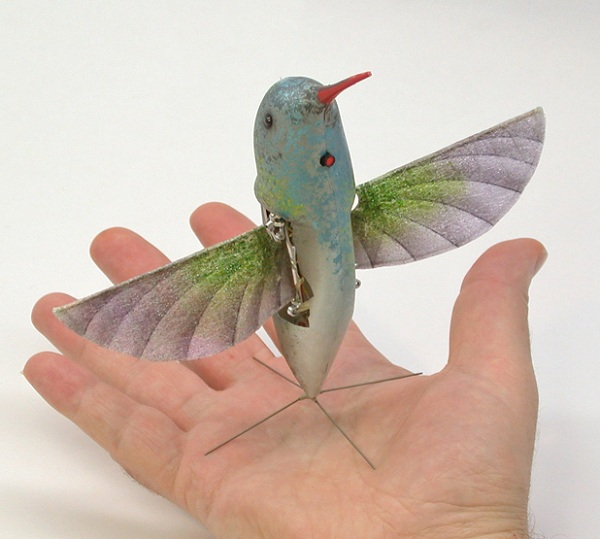 The Nano Hummingbird surveillance and reconnaissance aircraft developed by AeroVironment, Inc. under contract to the United States Government's Defense Advanced Research Projects Agency.